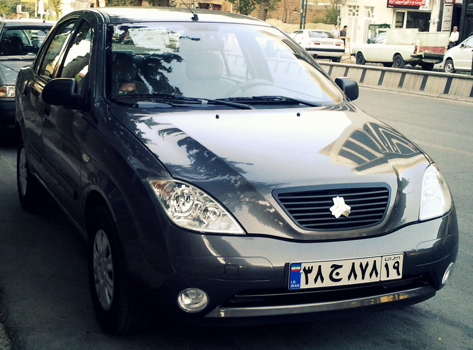 Saipa Tiba in Kermanshah